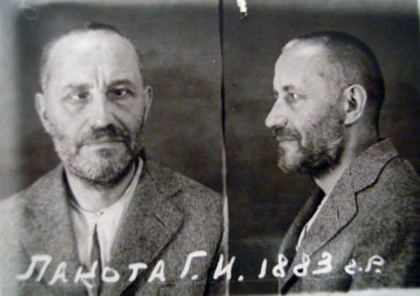 Hryhorij Lakota Ukr. Григорій Лакота (1880-1950) - Ukrainian Greek-Catholic Church auxiliary bishop who suffered religious persecution and was martyred by the Soviet Government.